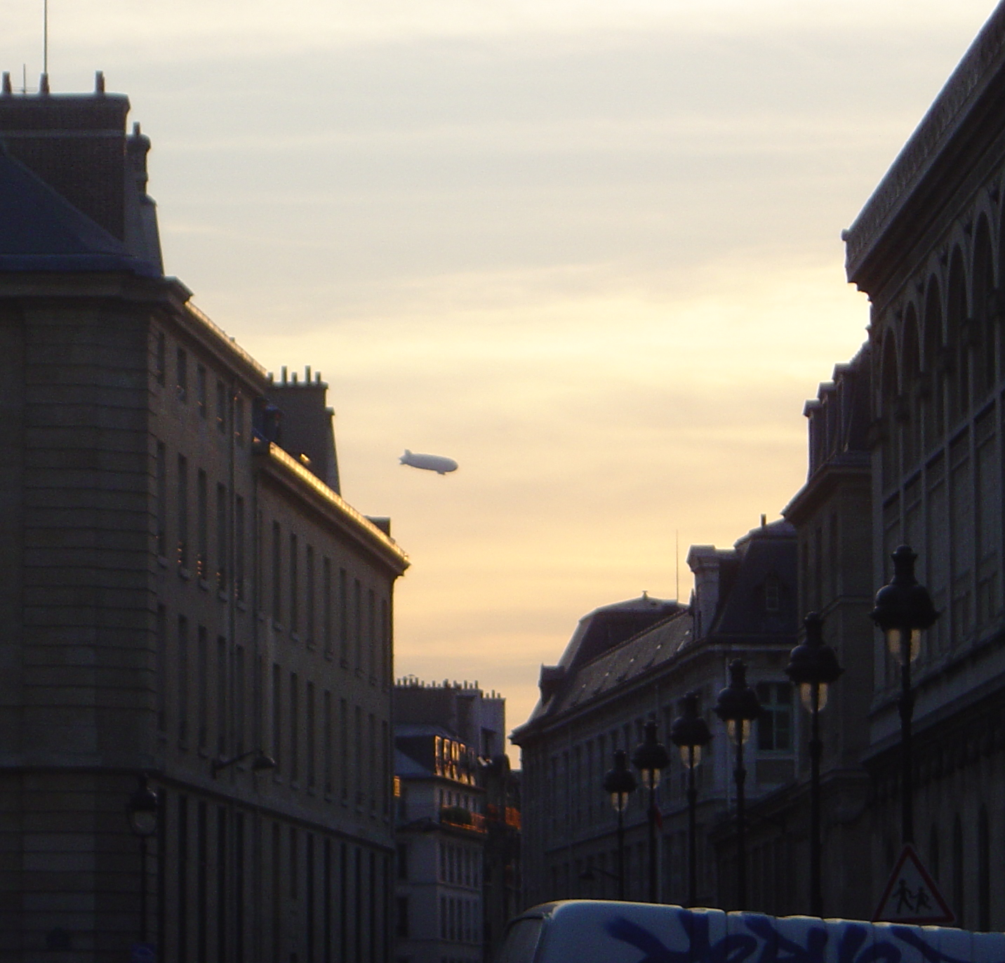 Zeppelin NT, experimented by Paris police at the Fête de la musique, photo prise Place du Panthéon à hauteur de le bibliothèque Sainte-Geneviève en direction de la rue Cujas, Ve arrondissement, Paris, France.